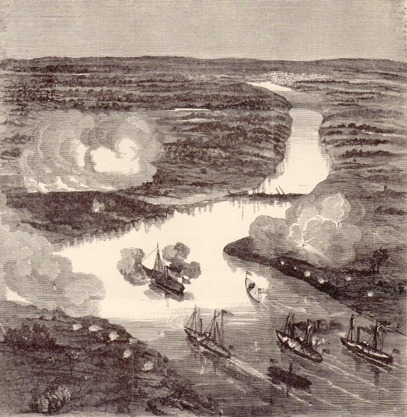 Photo image of line engraving of Battle of Drewry's Bluff, from Harper's weekly, 1862